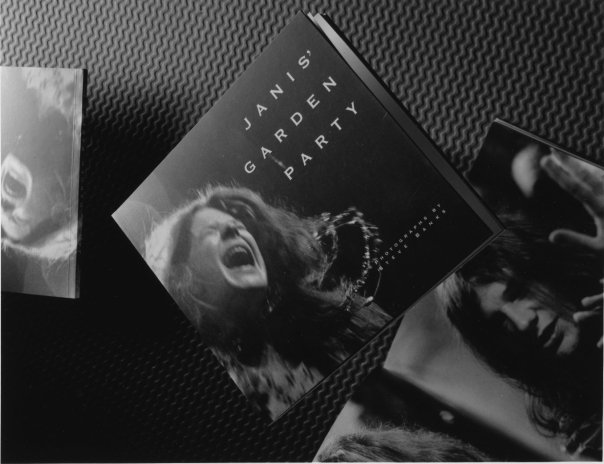 Cover artwork for Steve Banks' book "Janis' Garden Party."